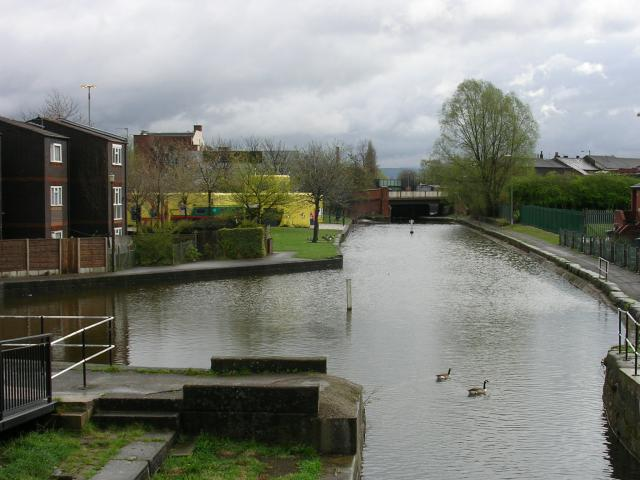 Rochdale Canal at Newton Heath. Here the Rochdale Canal runs through the town of Newton Heath, Manchester. This stretch sits between locks 69 & 70. The yellow building in the distance is the town library. In the past Newton Heath was a centre of industry. It is famous as the place where Manchester United Football Club was formed by a group of railway workers in 1879.